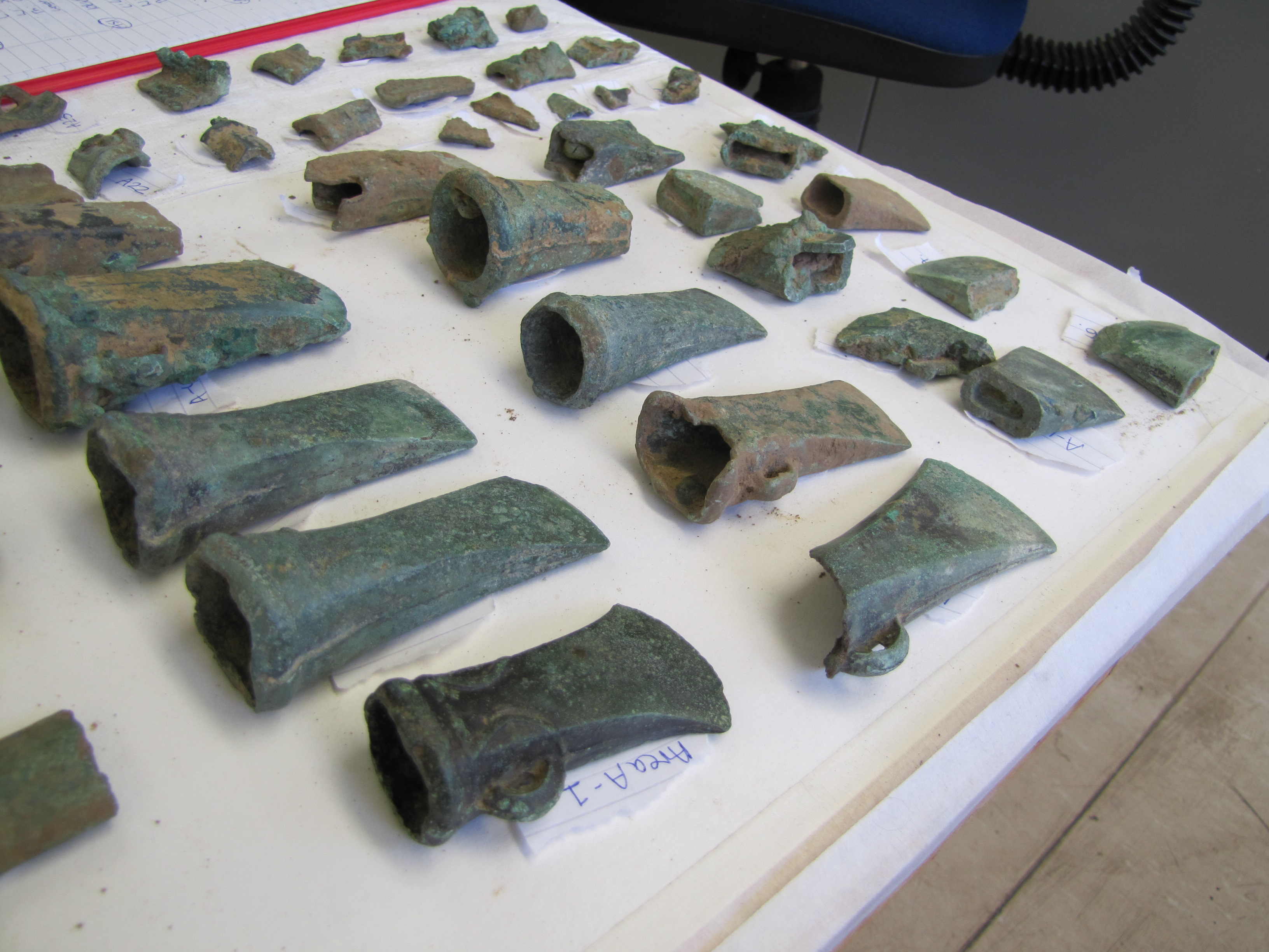 Selection of Bronze Age socketed axes from the Burnham Hoard